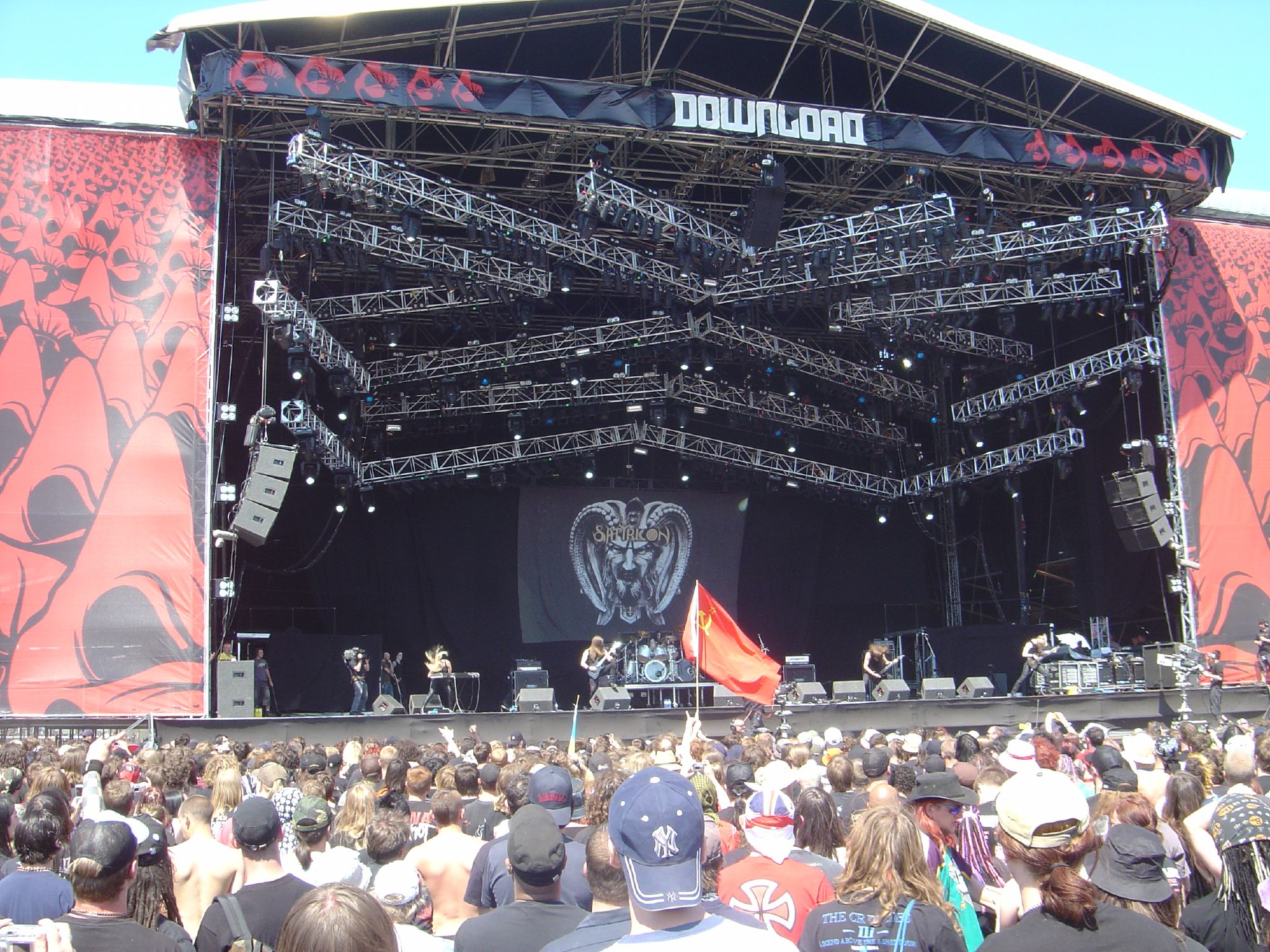 Satyricon at Download 2006